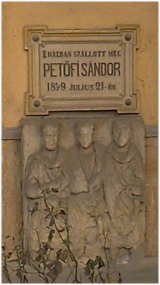 Petőfi's memorial plaque on the Reformed parsonage in Turda (Romania)